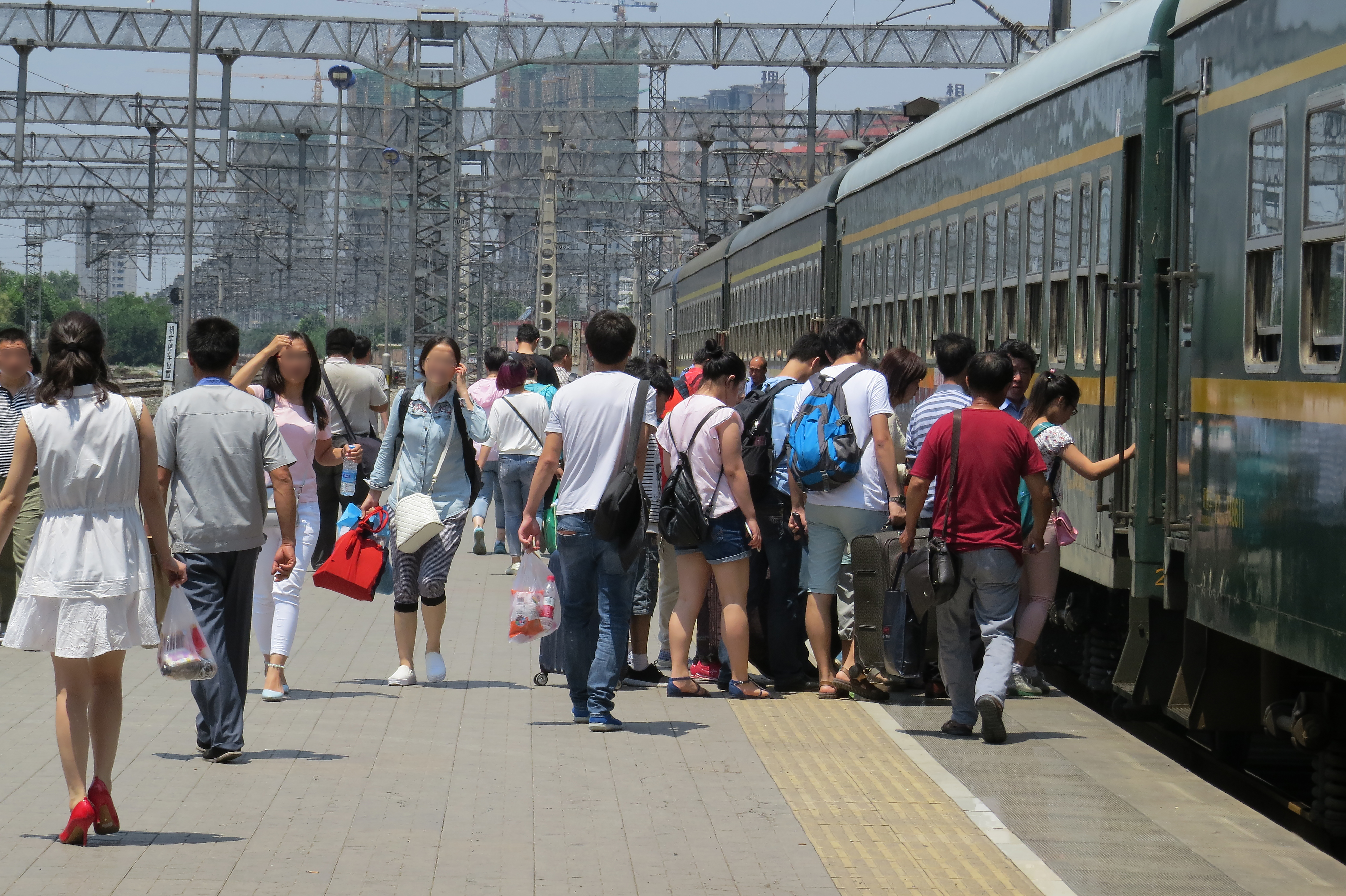 Tianjin to She County, Handan.